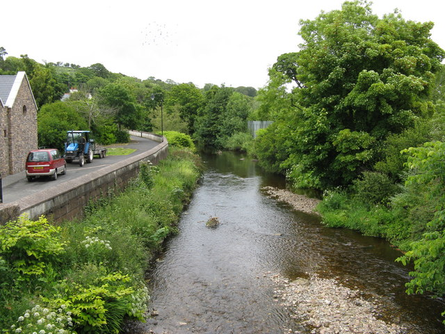 River Dall, Cushendall, Co. Antrim Looking downstream from the bridge.